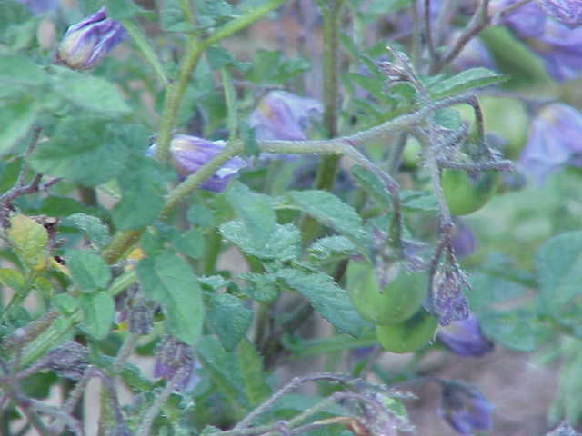 Species: Solanum chacoense Family: Solanaceae Image No. 2